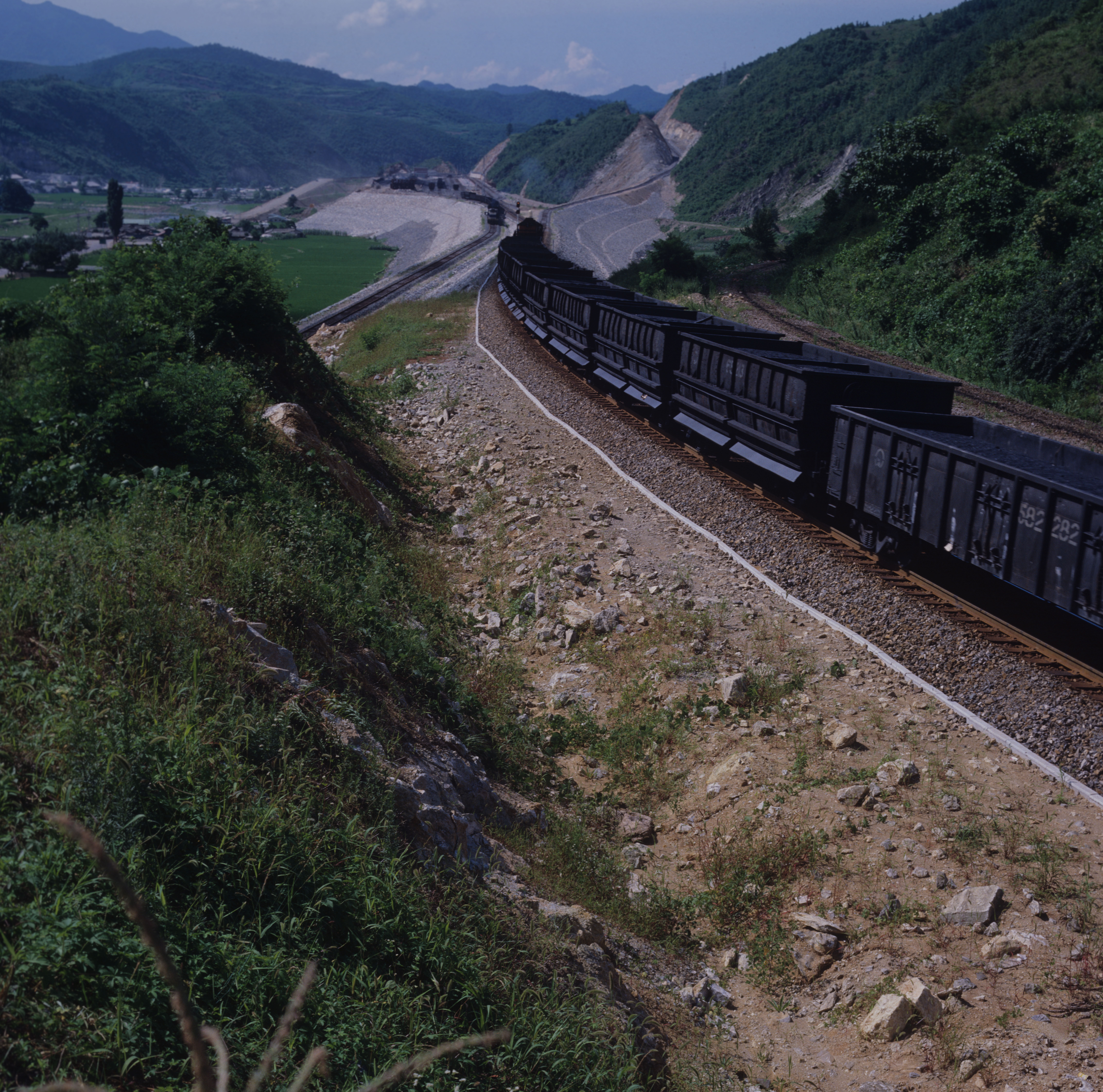 Catch Siding in Jungang line Old Danyang Station(Danseong Station) 1985